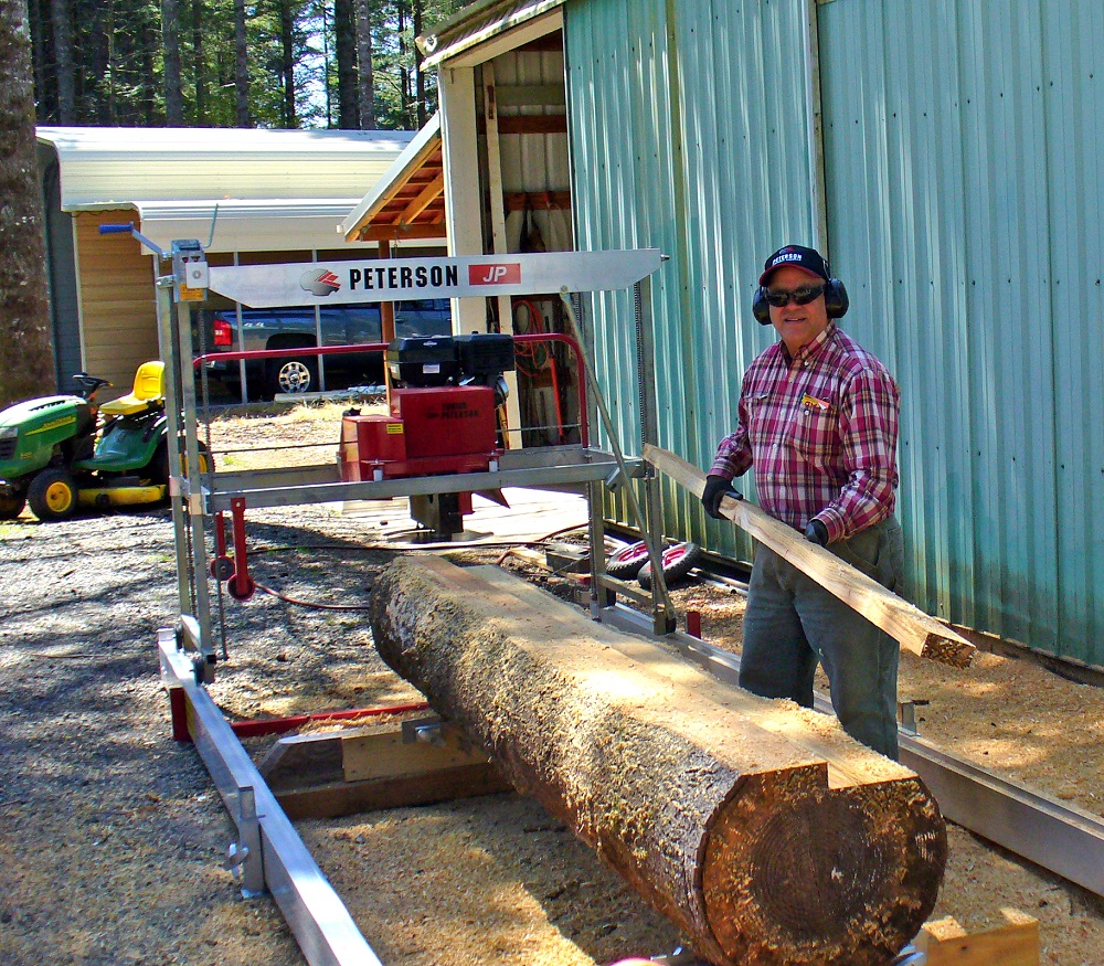 An example of a portable sawmill with a swingblade